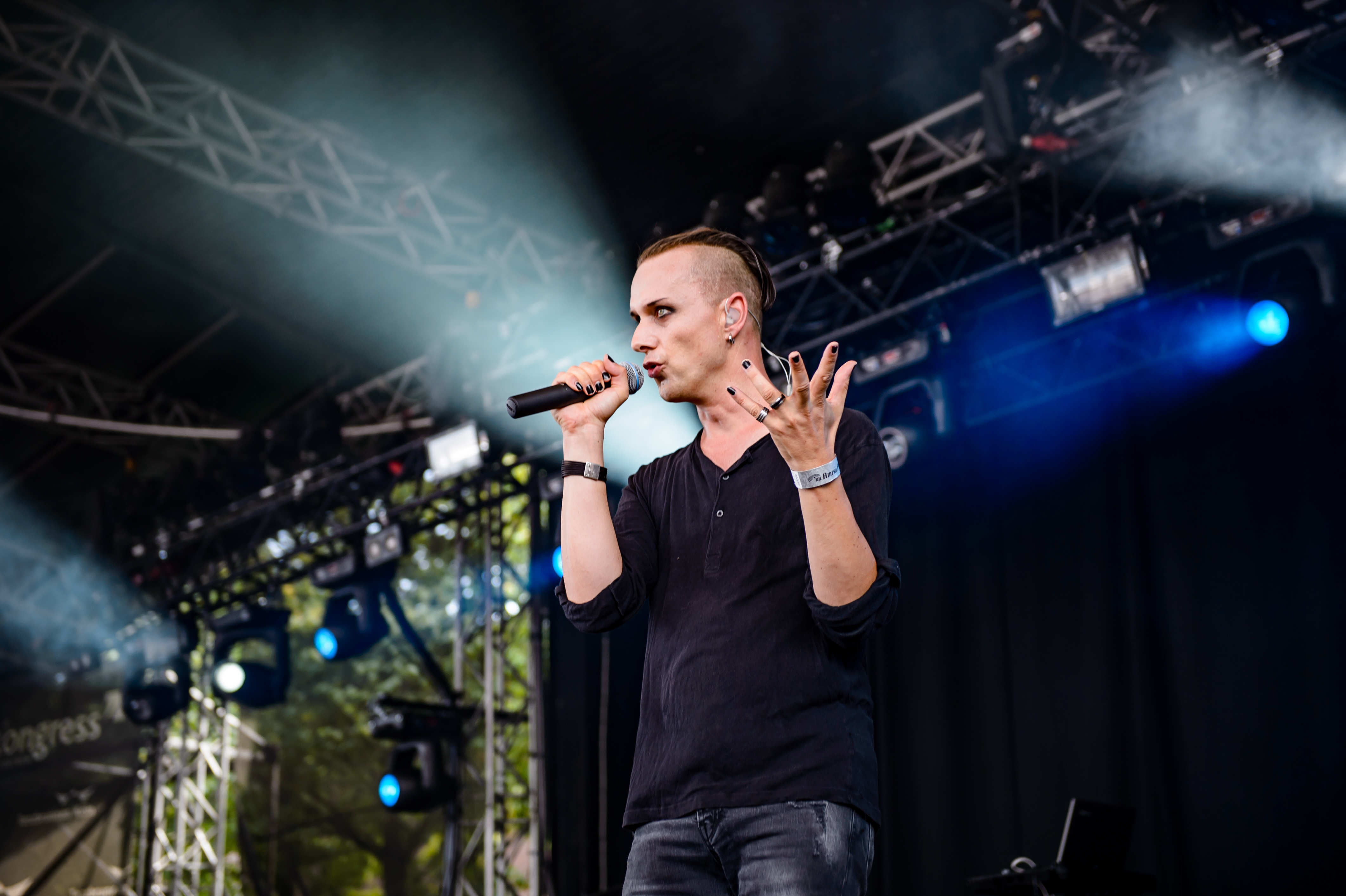 Solar Fake; Amphi festival 2016